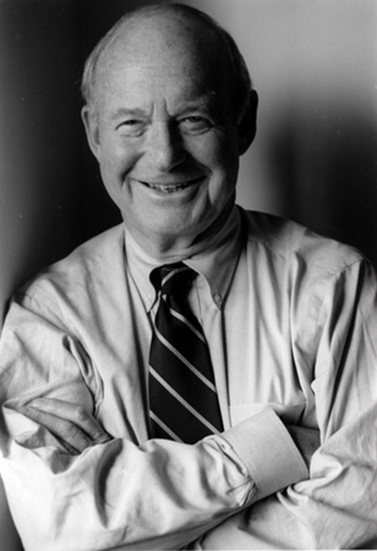 Photo of Gerald Weissmann, MD, Physician, Scientist, Essayist and Editor.